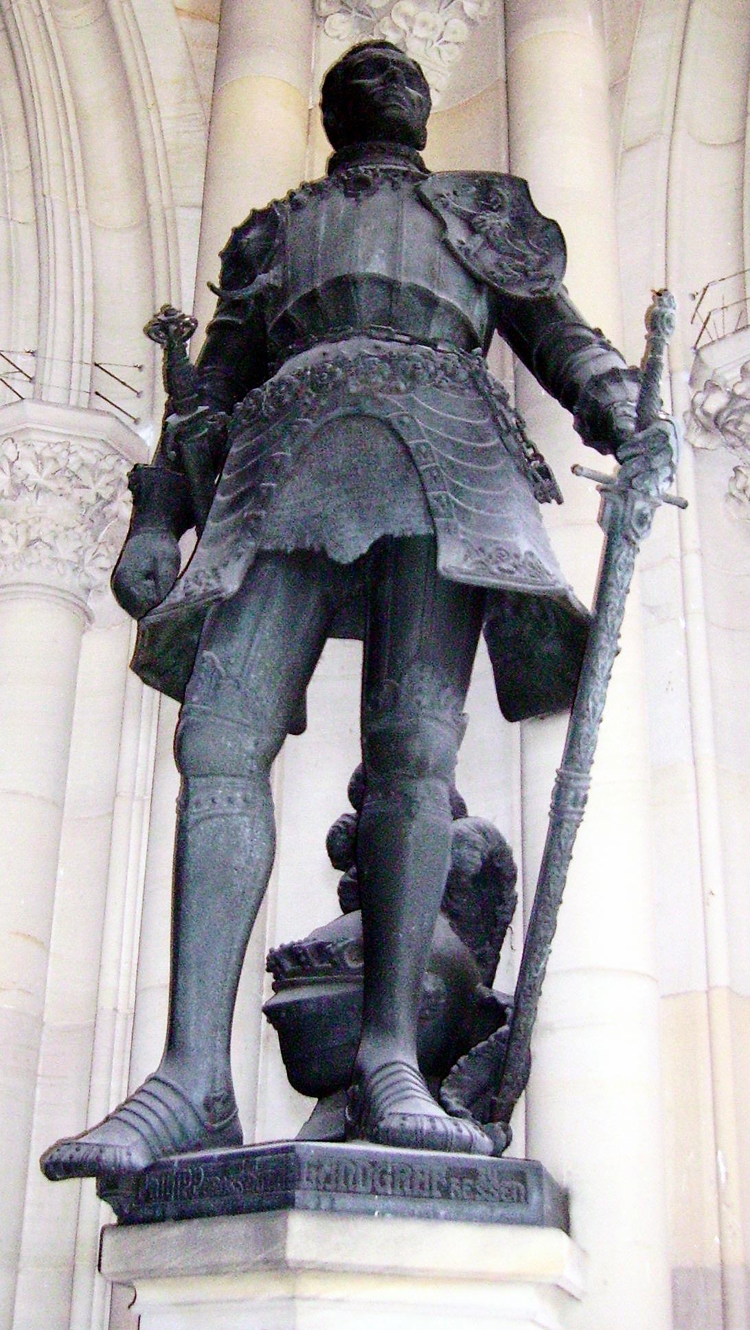 Gedächtniskirche (Memorial Church) in Speyer, Germany